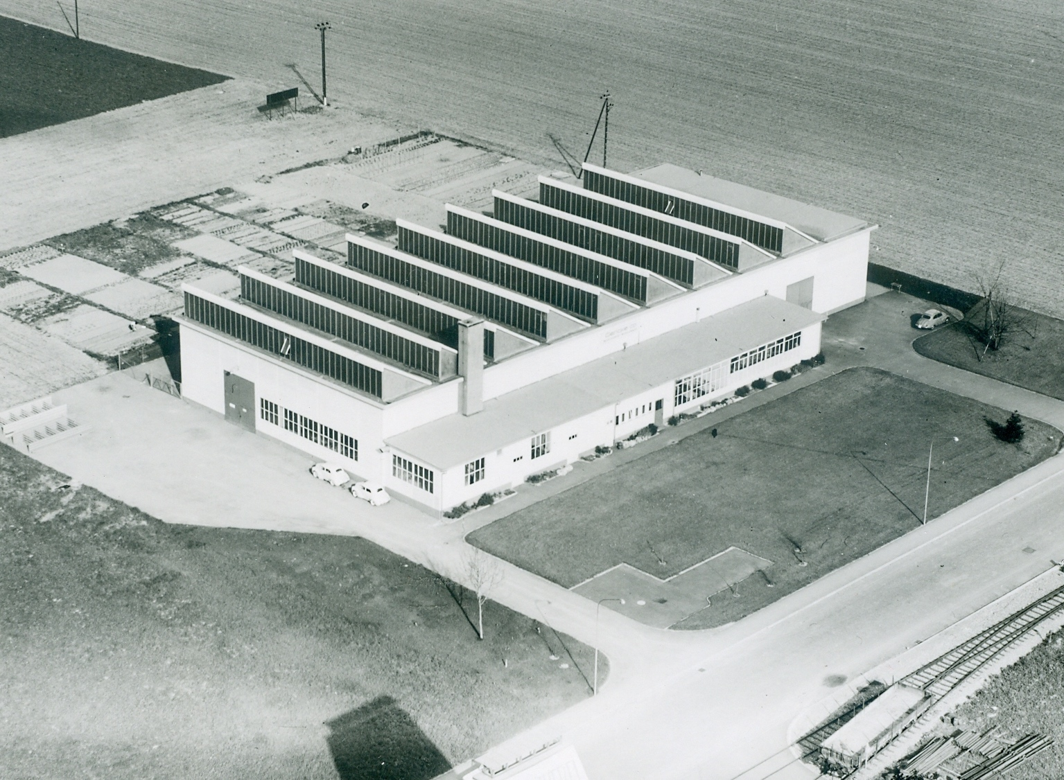 Factory of Gericke AG in Regensdorf